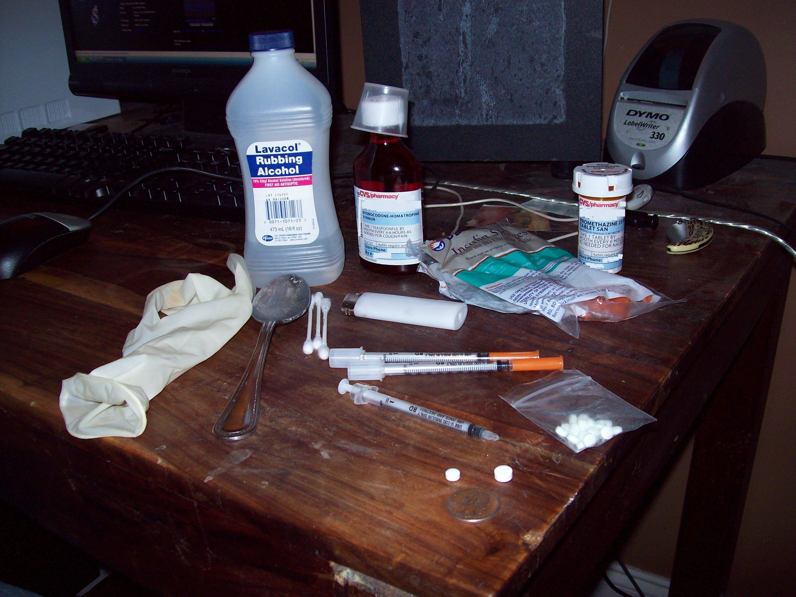 A kit made for injecting street drugs, notably opiates (note the promethazine and roxicodone tablets). Items listed clockwise starting from top: Hydrocodone/Homatropine syrup (intensifies opiate effects/remedy for "dope sickness"), Butane Lighter (used to heat up "cook" the concoction before filling syringe), Package of insulin syringes, bottle of Promethazine (opiate potentiator, alleviates "dope-sickness" (often cooked up with the drug being injected), Pocket knife (used to chop or "break up" drug into fine powder), oxycodone pills, individual 100 CC insulin syringes, individual roxicodone pill 15mg (left of quarter) and promethazine 50mg (right of quarter), Q-Tips (cotton used as a filter when filling syringe), Metal spoon (concoction is "cooked up" on spoon), latex glove (used as a tourniquet), Ethanol or isopropyl alcohol (Used to clean skin and any surfaces the drug is to come in contact with) Note it is quite common for a drug injector to use a single needle repeatedly or share a needle with other users. It's also quite uncommon for a sterilizing agent such as alcohol to be used. Compare to this legitimate kit obtained through a needle-exchange program